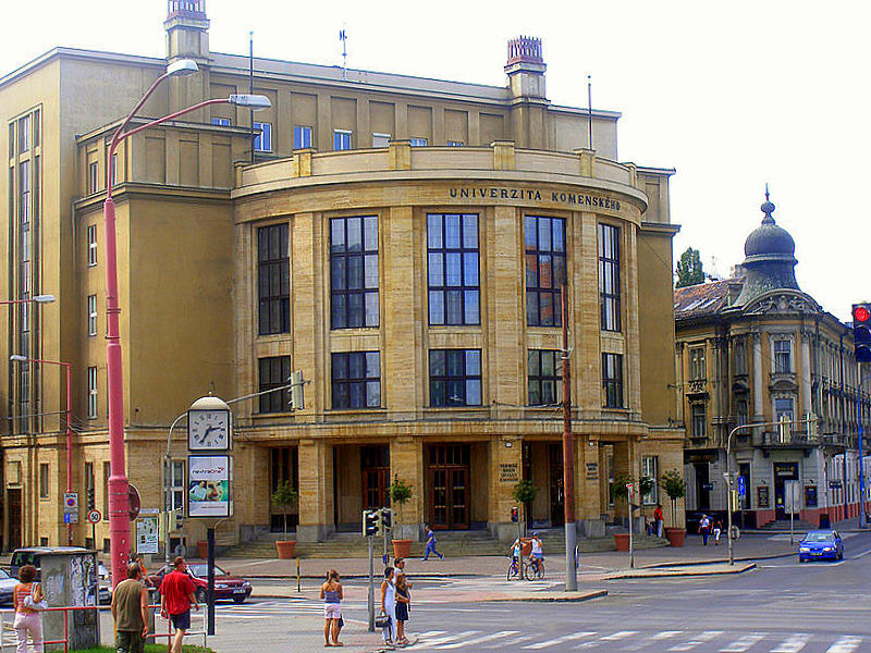 Comenius University